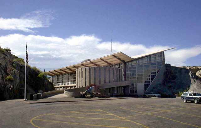 Original Dinosaur National Monument visitor center at Dinosaur Quarry, Utah, USA, a U.S. National Historic Landmark. Substantially altered 2010-11 by new construction and structural repair work.